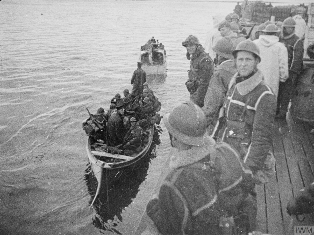 The French Army in the Norwegian Campaign, 1940 The landings at Bjerkvik during the battle of Narvik after fierce bombardment by British ships. French troops massed in boats under machine gun fire from the rocks and shore.